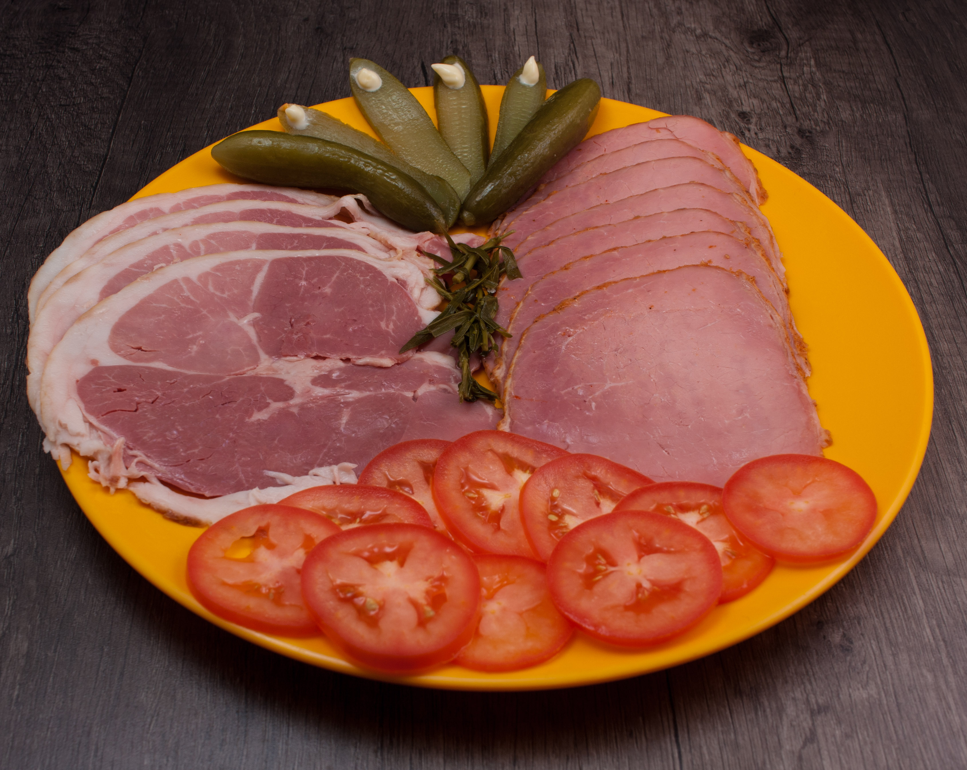 Cold cuts